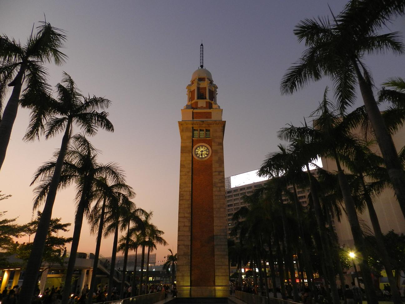 Former Kowloon-Canton Railway Clock Tower, Tsim Sha Tsui, Kowloon, Hong Kong (China)